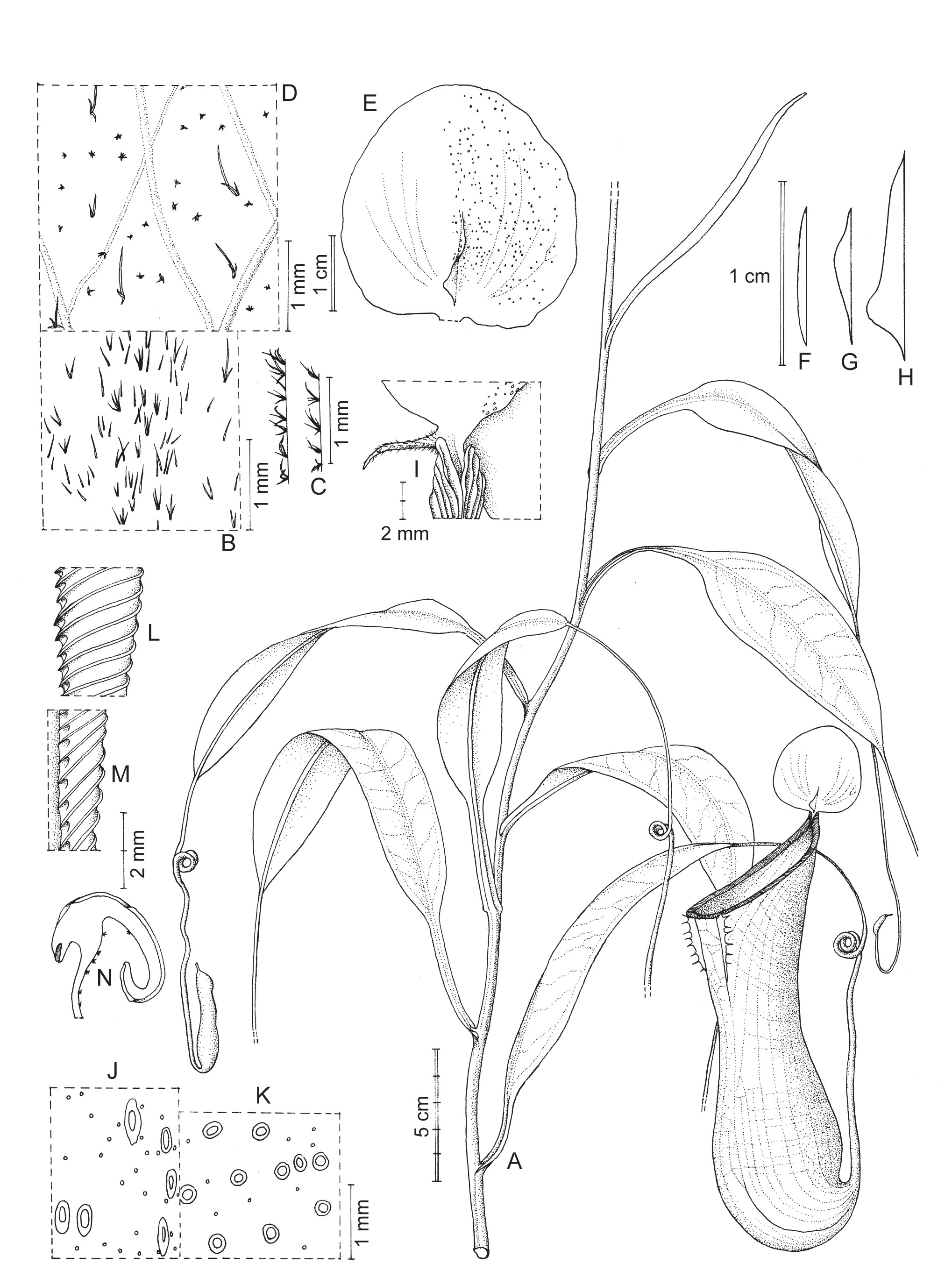 Botanical illustration of Nepenthes kurata from the type description. This species has been synonymised with N. ramos. Original caption: "Nepenthes kurata sp. nov. A. Habit, climbing stem with upper pitcher. B. Indumentum of midrib, lower surface of leaf-blade. C. Indumentum of tendril. D. Indumentum of outer pitcher surface. E. Lid, lower surface, showing nectar gland distribution on right (upper pitcher). F–H. Profiles of basal lid ridges, without appendage (F), with appendage weakly developed (G), and moderately developed (H). I. Spur of intermediate pitcher. J. Longitudinally elliptic nectar glands of lid midline. K. Orbicular nectar glands of lid, outside the midline. L. Peristome from above, short teeth and holes discernible. M. Peristome viewed from inside pitcher. N. Peristome transverse section, outer surface to right. A–E, J & K from Gaerlan et al. PPI 10911; F–I, L–N from Mearns & Hutchinson 4632. Scale bars: single = 1 mm; graduated single = 2 mm; double = 1 cm; graduated double = 5 cm. All drawn by Andrew Brown."